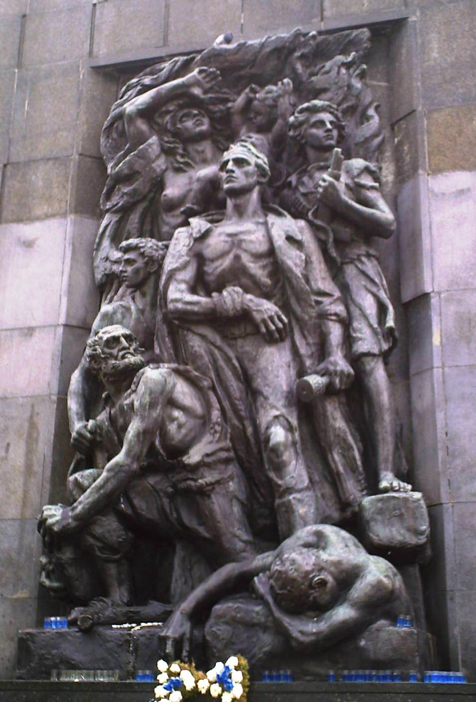 Monument of Warsaw ghetto uprising in 1943. Warsaw, Poland.